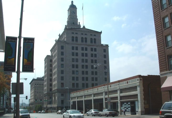 A view of the Wells Fargo building in Davenport,Iowa.